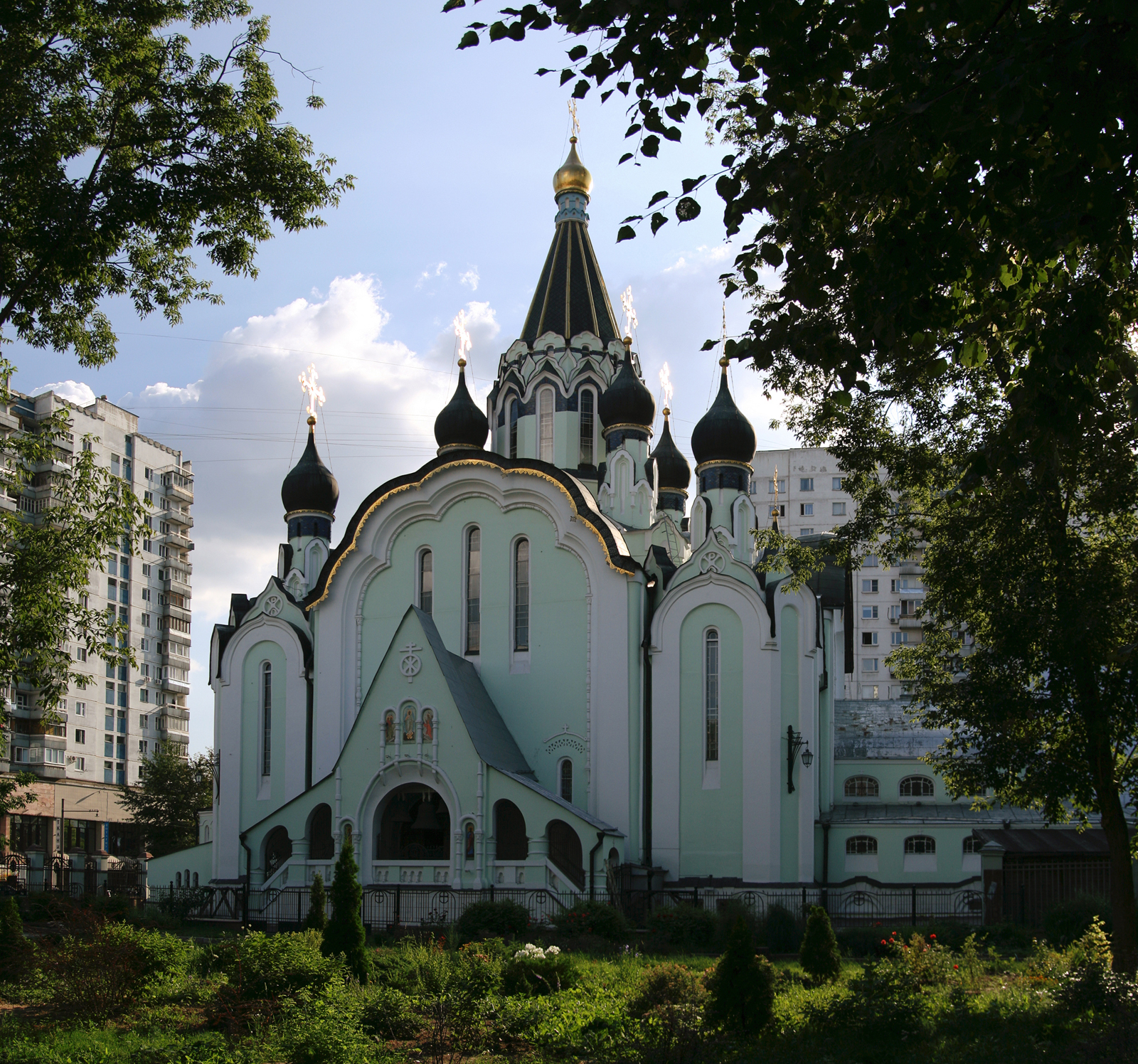 Church of the Resurrection of Christ in Sokolniki, 1909-1913